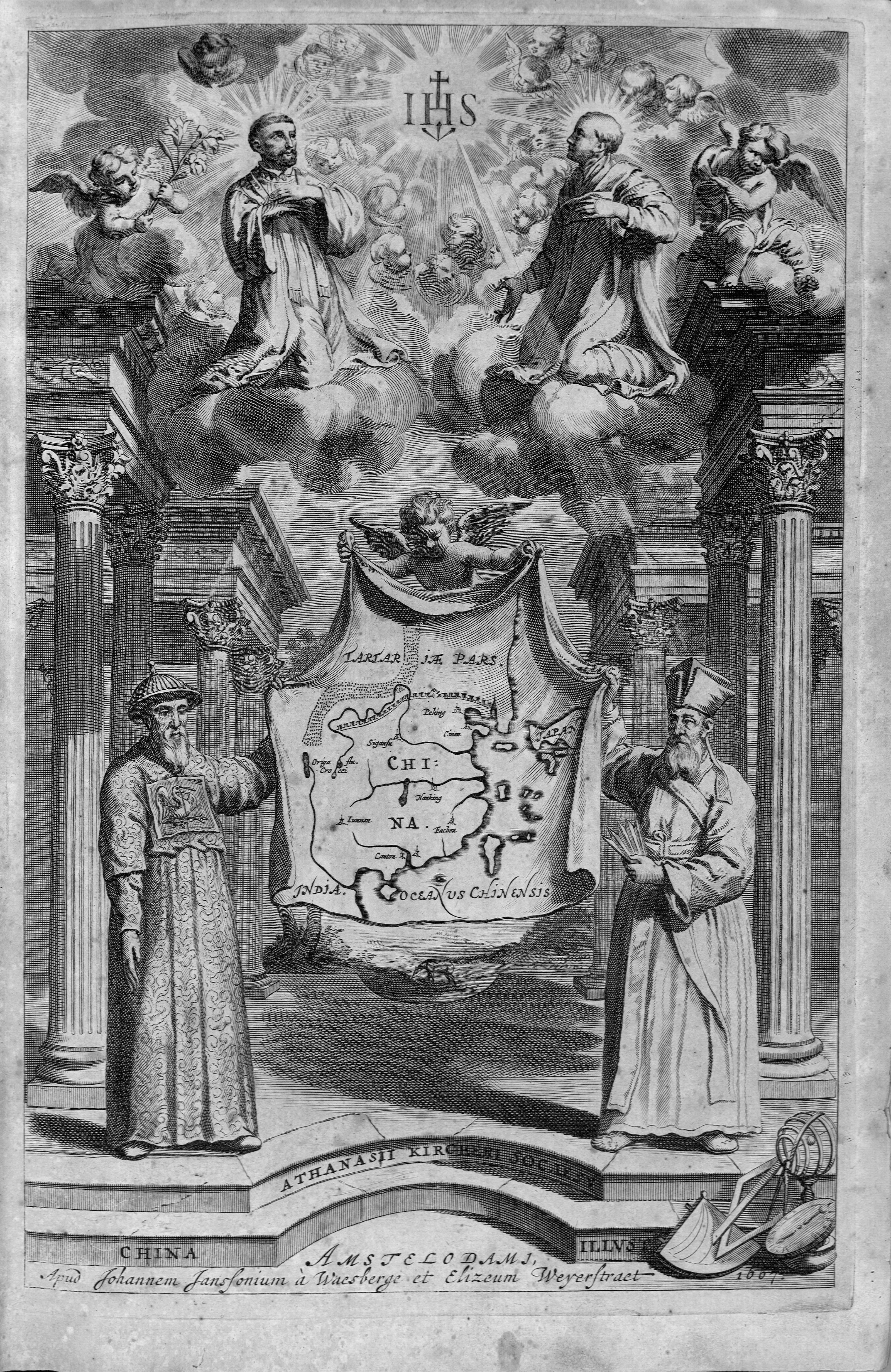 Frontispiece for Athanasius Kircher's 1667 China Illustrated, published at Amsterdam by Elisée or Elizaeus Weyerstraet and Jan Janszoon van Waesberghe, depicting Adam Schall, an angel, and Matteo Ricci displaying a map of China below SS Francis Xavier and Ignatius Loyola venerating an IHS representing Jesus Christ surrounded by angels. Note the mandarin square on Schall's robe.